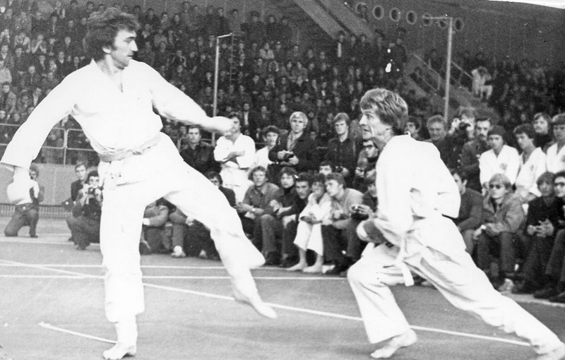 Karate in Belorussia